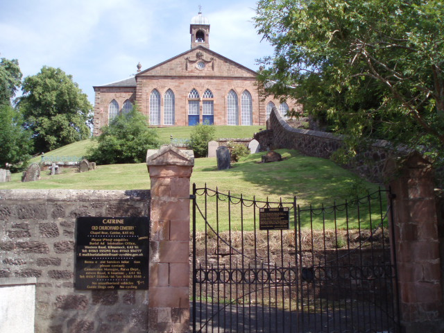 Old Church Yard Cemetery. The cemetery in Catrine with Chapel Brae on the hill top